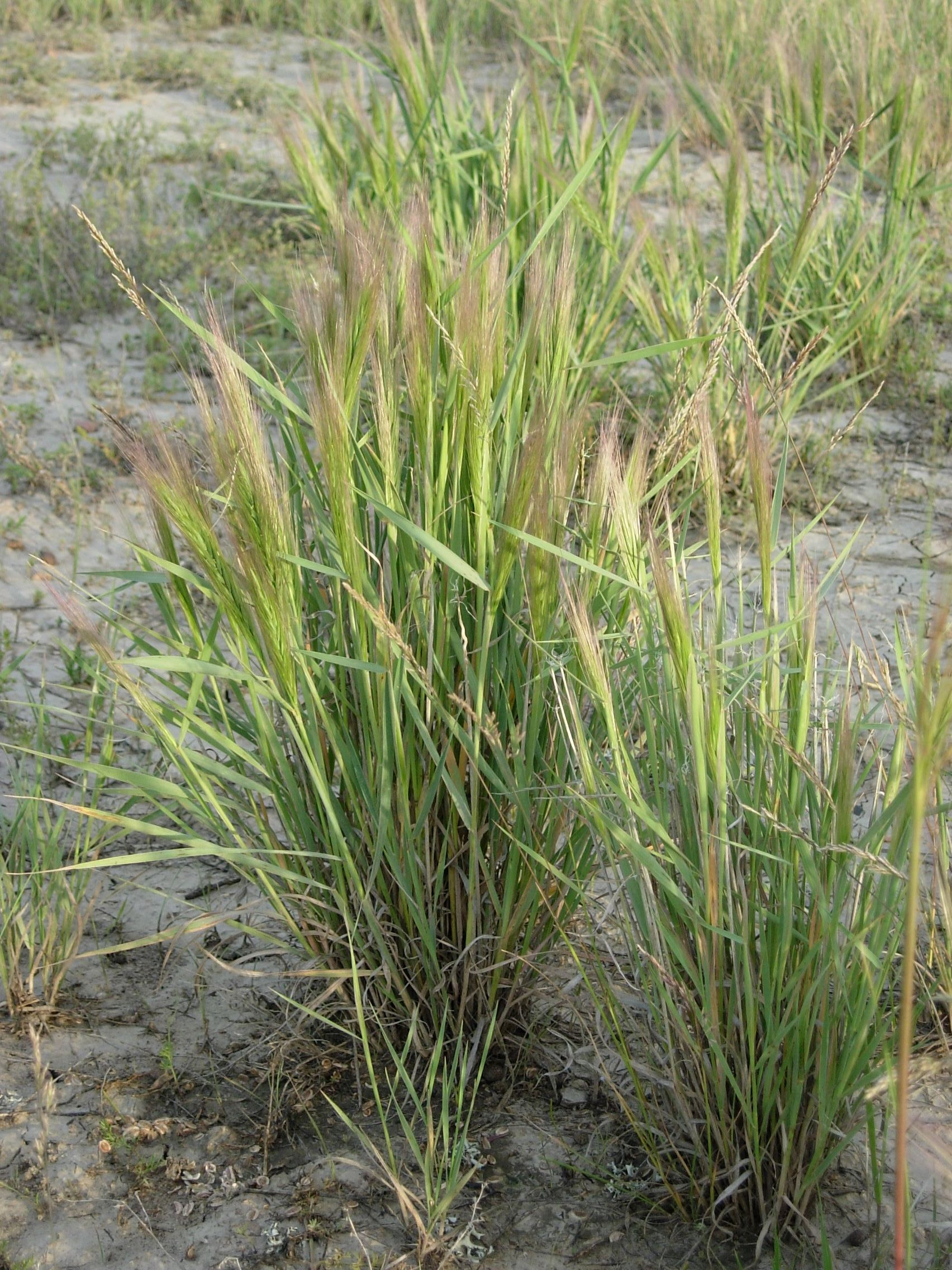 Elymus elymoides is a very common and widespread inhabitant of the sagebrush steppe.